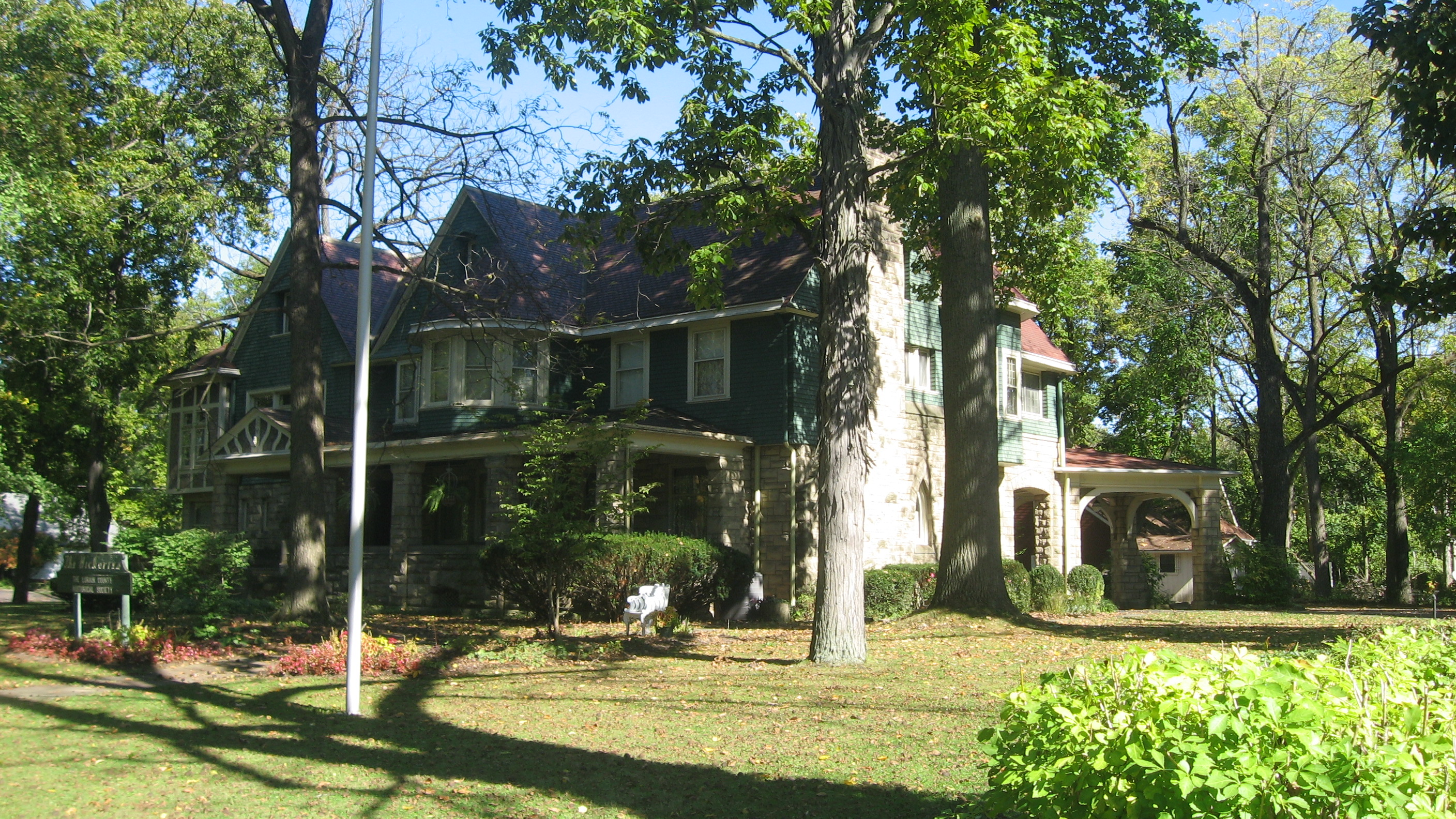 Front of the Arthur L. Garford House (also known as the "Hickories Museum"), located at 509 Washington Avenue in Elyria, Ohio, United States. Built in 1895, it is listed on the National Register of Historic Places, and it is part of a Register-listed historic district, the Washington Avenue Historic District.